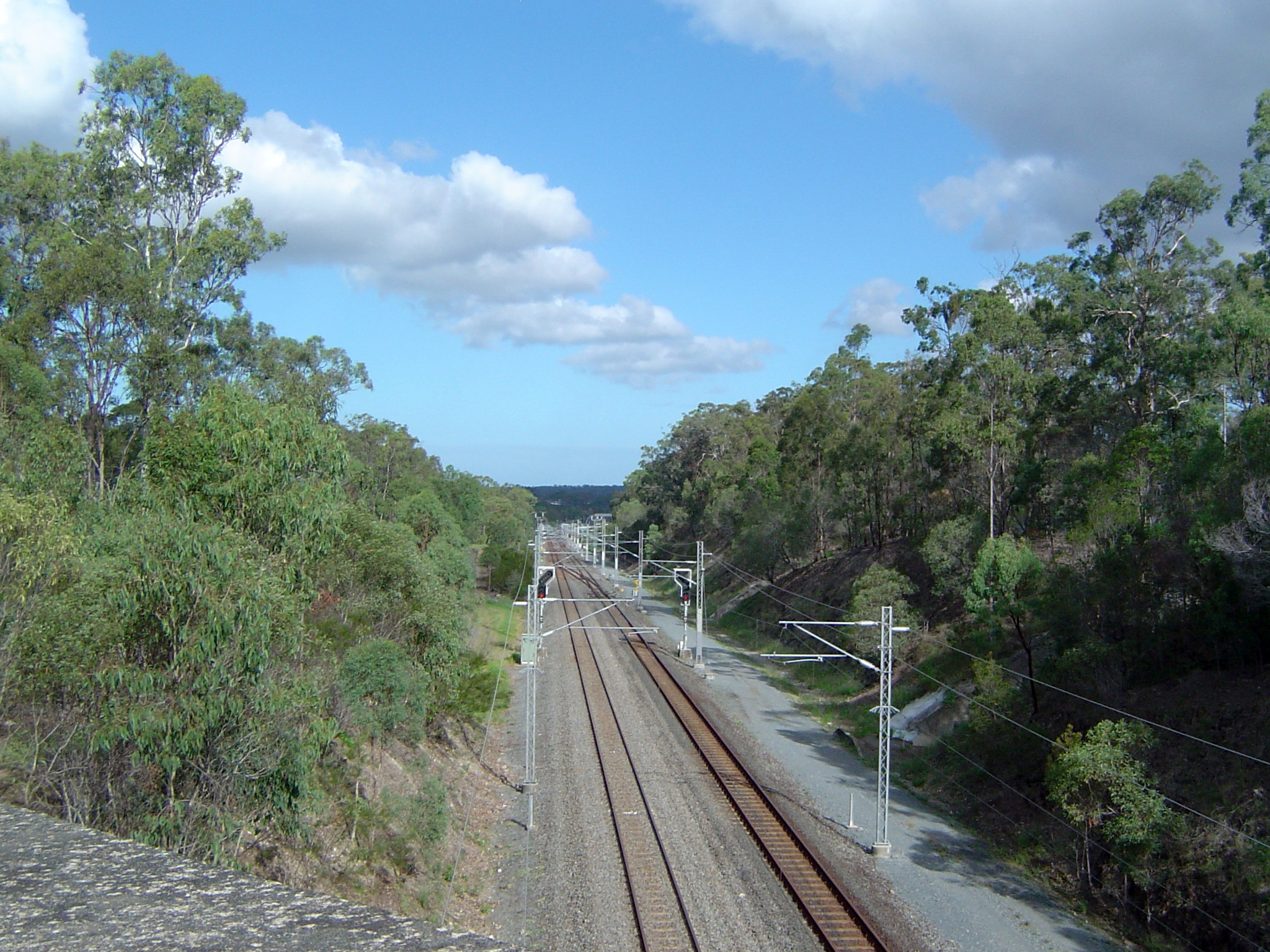 Photo of Gold Coast railway line from Mirambeena Drive overpass at Pimpama, Queensland, Australia.